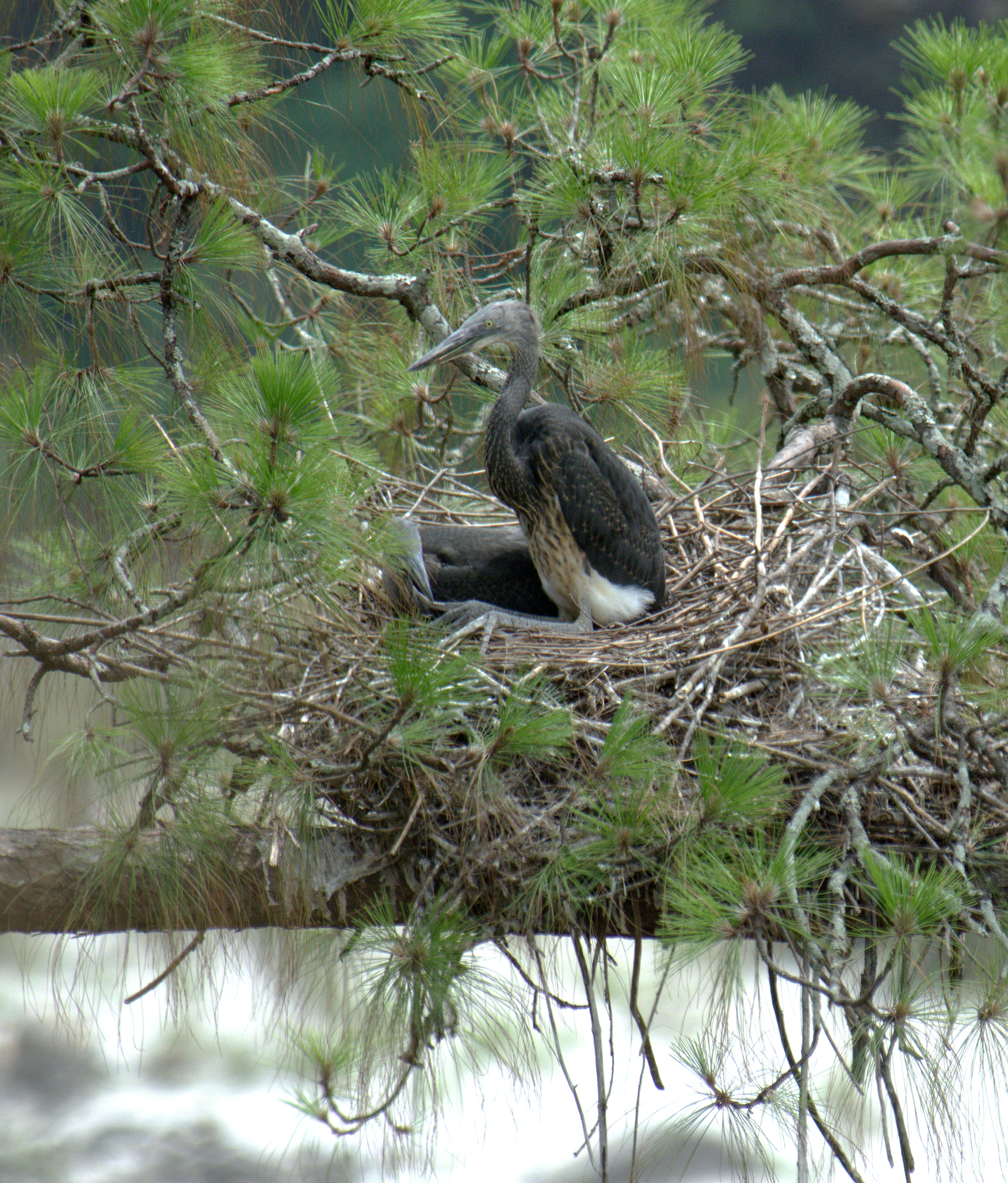 White-bellied Heron Ardea insignis nest by Dr. Raju Kasambe. This species is Critically Endangered.